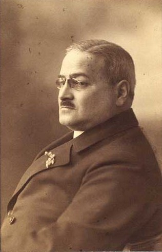 Max Adolph Ballin (1865-1921), Danish industrialist